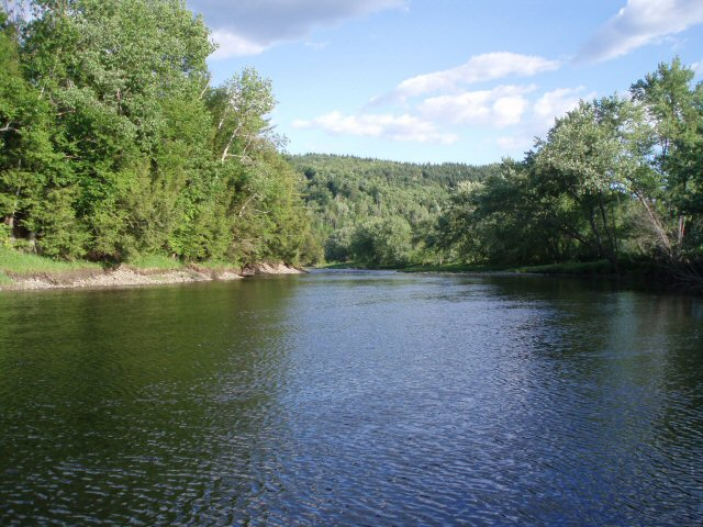 Connecticut River near Colebrook, New Hampshire